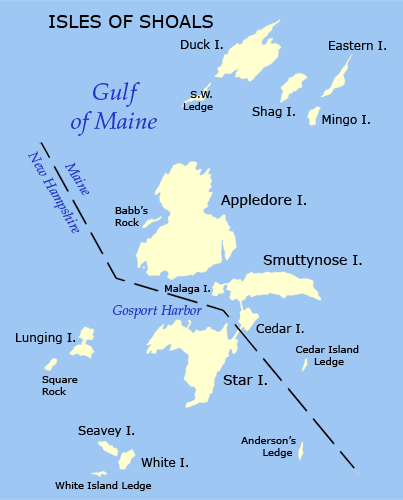 Map of Isles of Shoals, Maine/N.H., USA. Drawn by Rick Holt using PhotoShop CS2